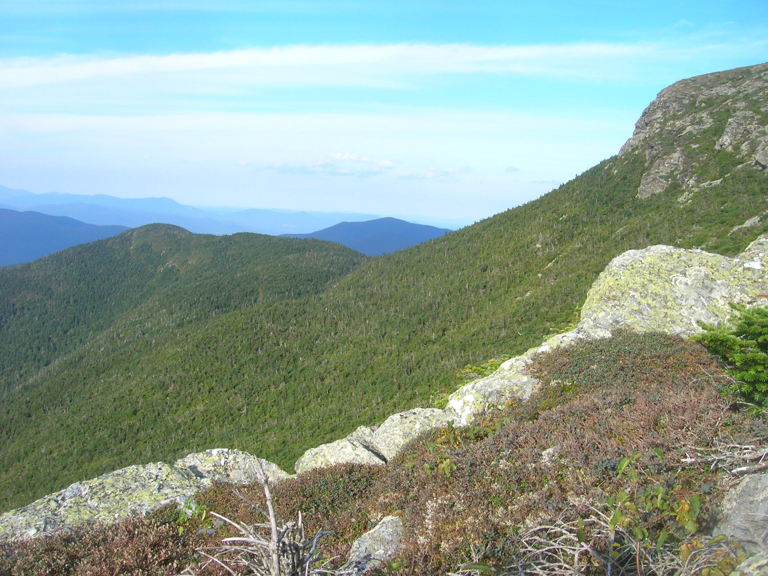 Mount Mansfield State Park, Sunset Ridge Trail. View looking northeast, 2010